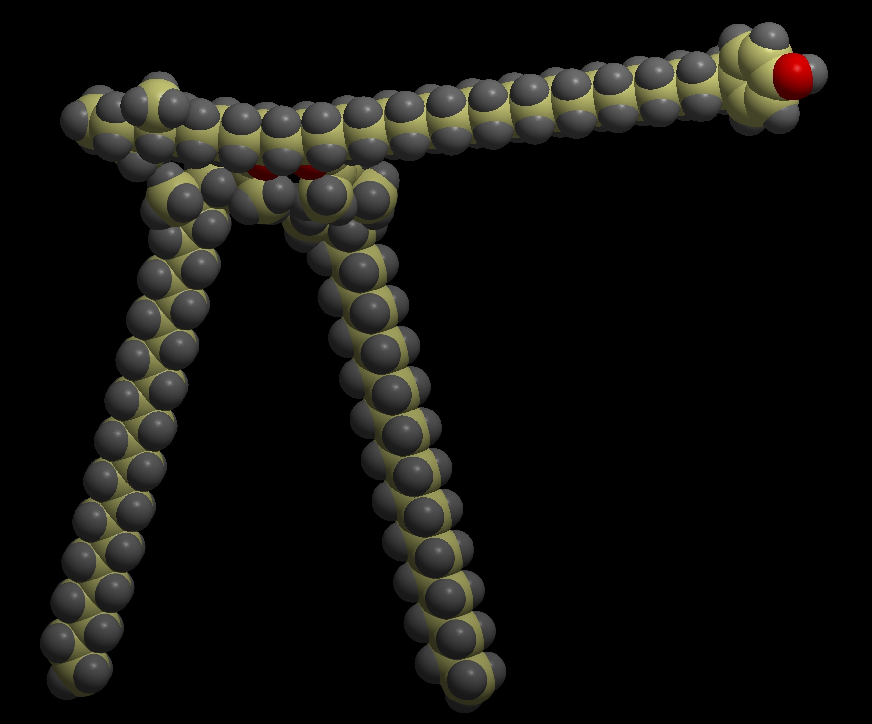 3d VDW model of one of the phthiocerol compounds ("DIM/DIP") being the outermost layer of mycobacterial cell membranes.